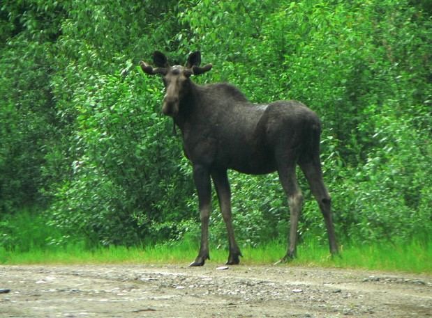 I am the creator of this Moose photo and release it into the public domain.